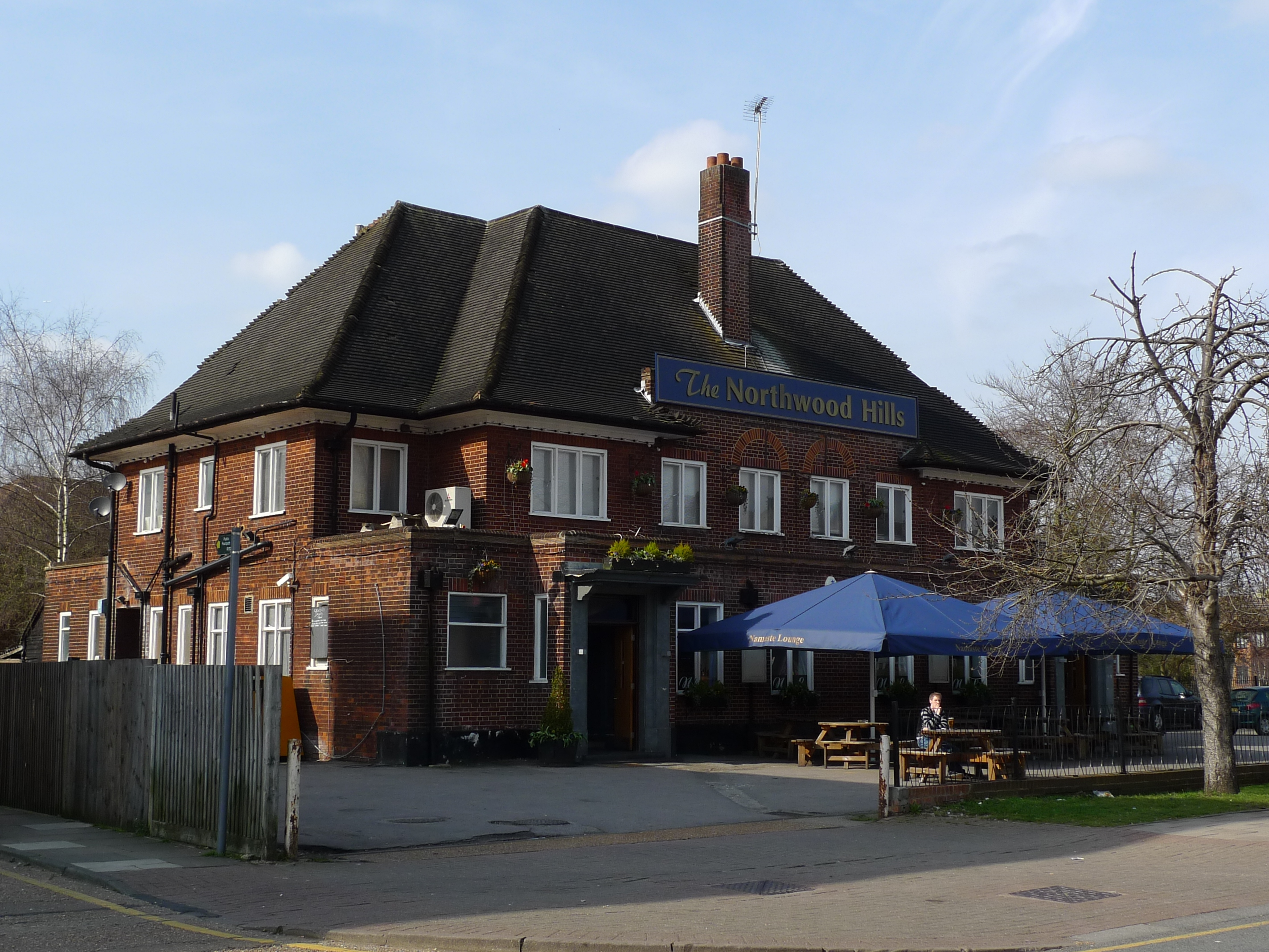 A large pub opposite Northwood Hills station. Address: 66 Joel Street. Owner: Scottish and Newcastle (former). Links: Randomness Guide to London Beer in the Evening